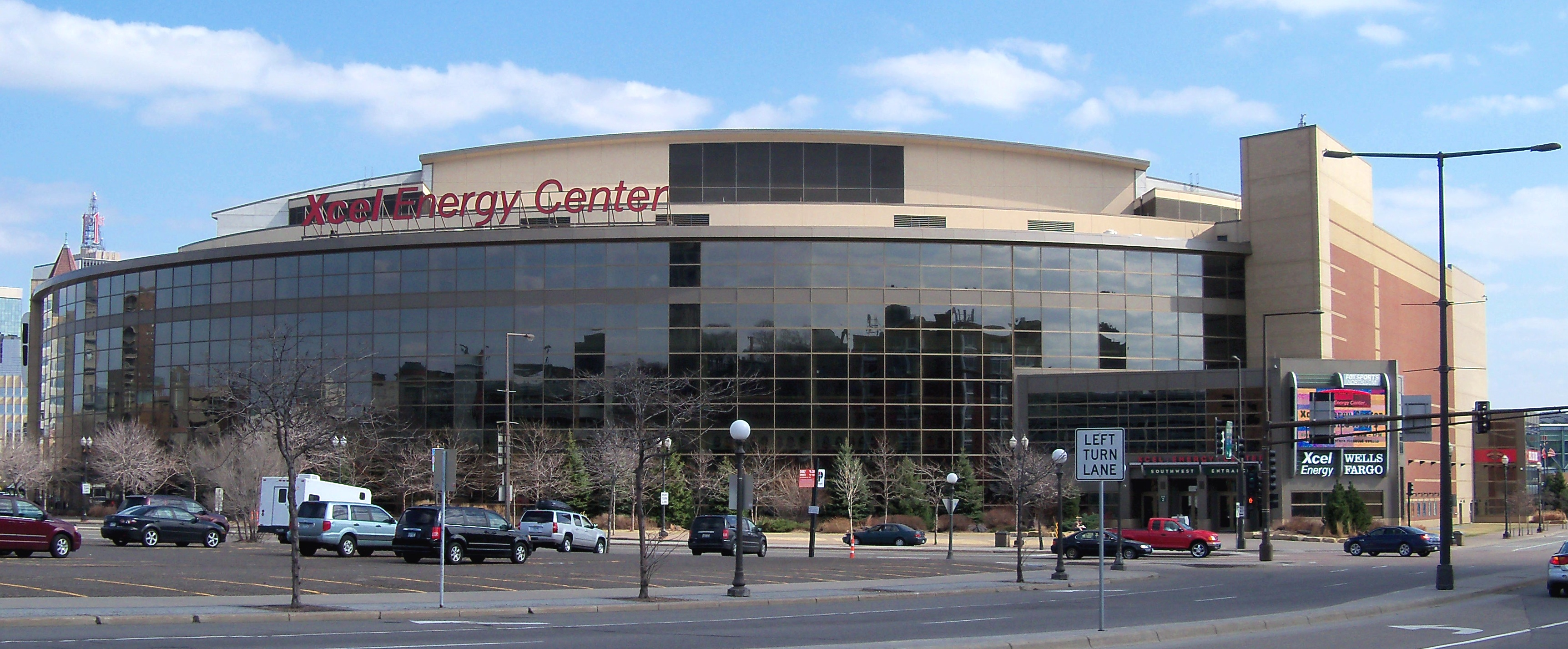 Xcel Energy Center in downtown St. Paul, Minnesota, USA.